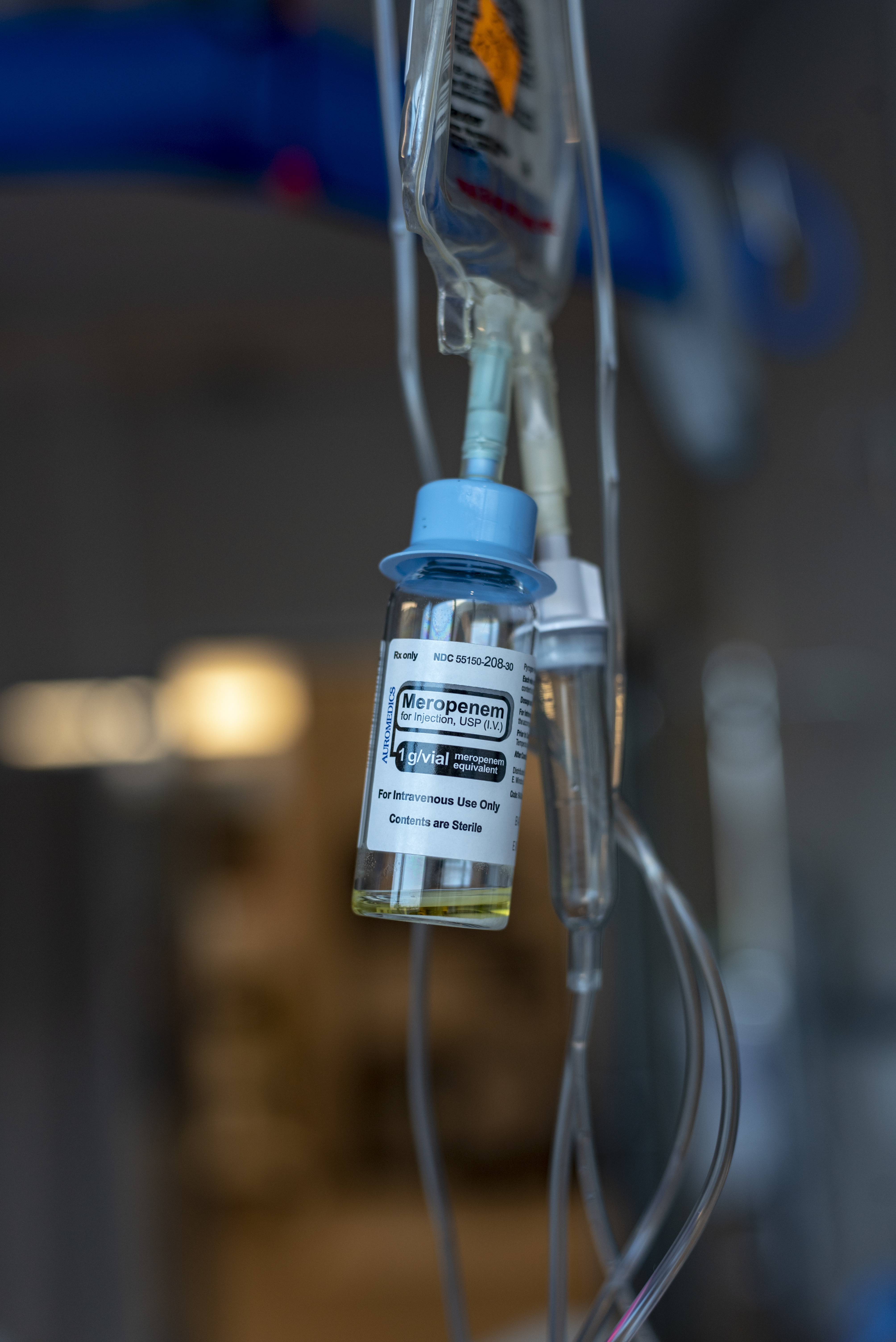 Meropenem.